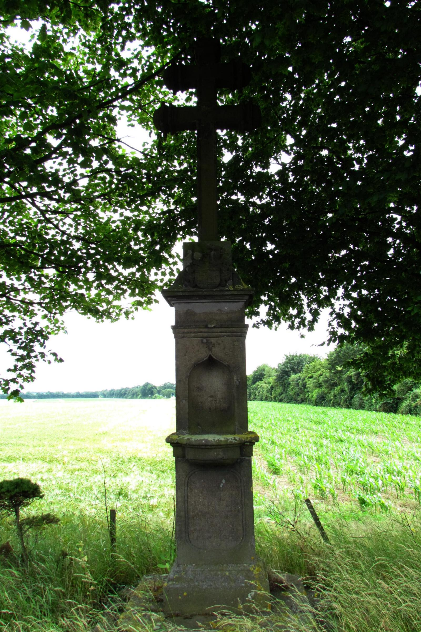 This is a photograph of an architectural monument.It is on the list of cultural monuments of Korschenbroich